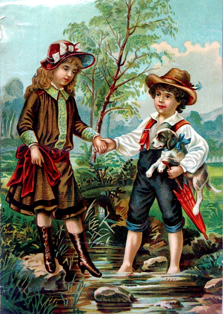 A boy helping a girl over a creek.